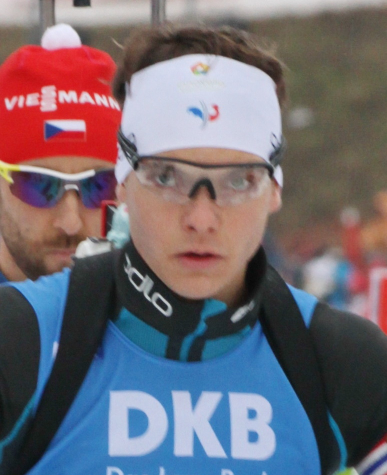 2018 Oberhof Biathlon World Cup - Pursuit Men